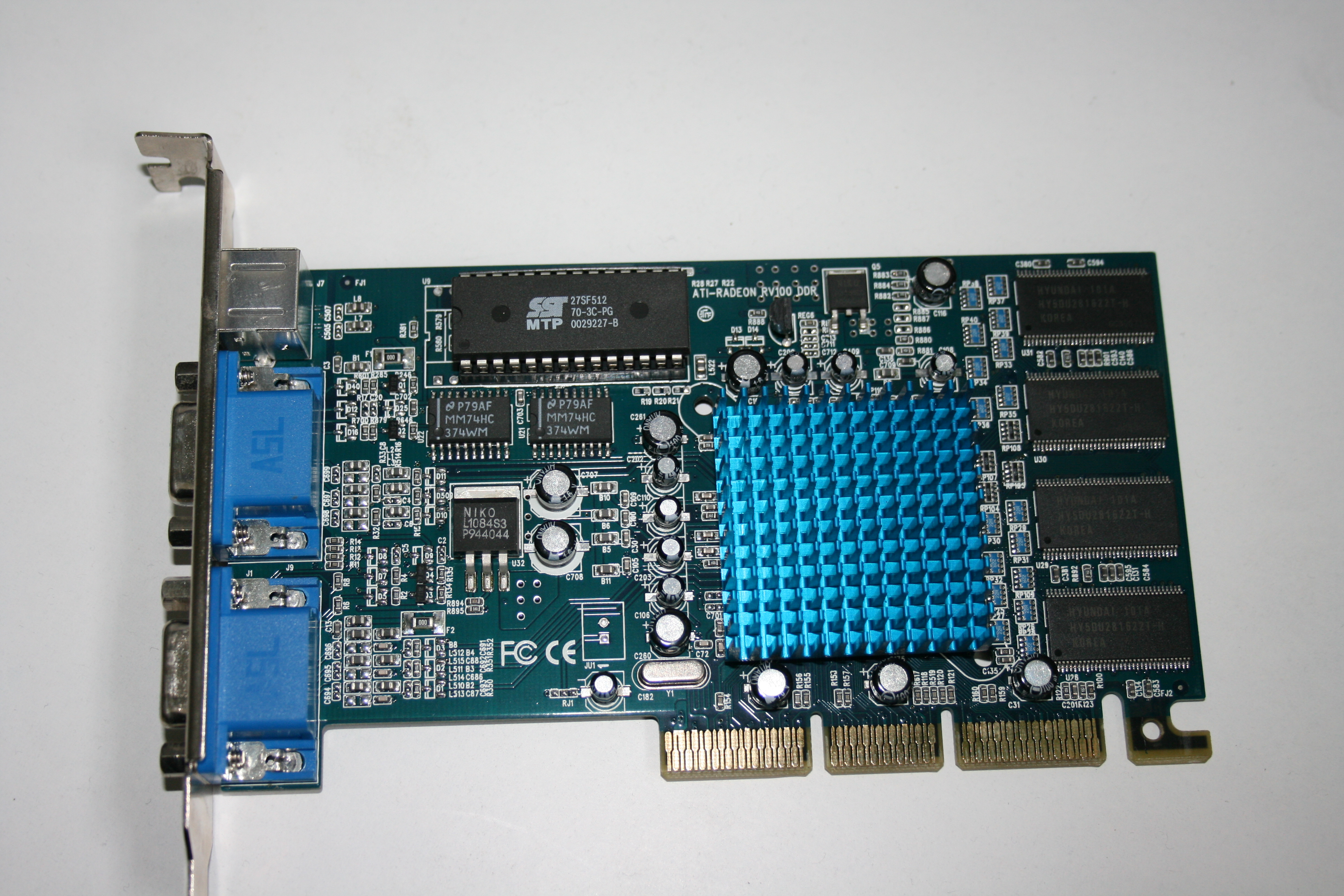 An ATI-Radeon RV100 DDR AGP graphics card.